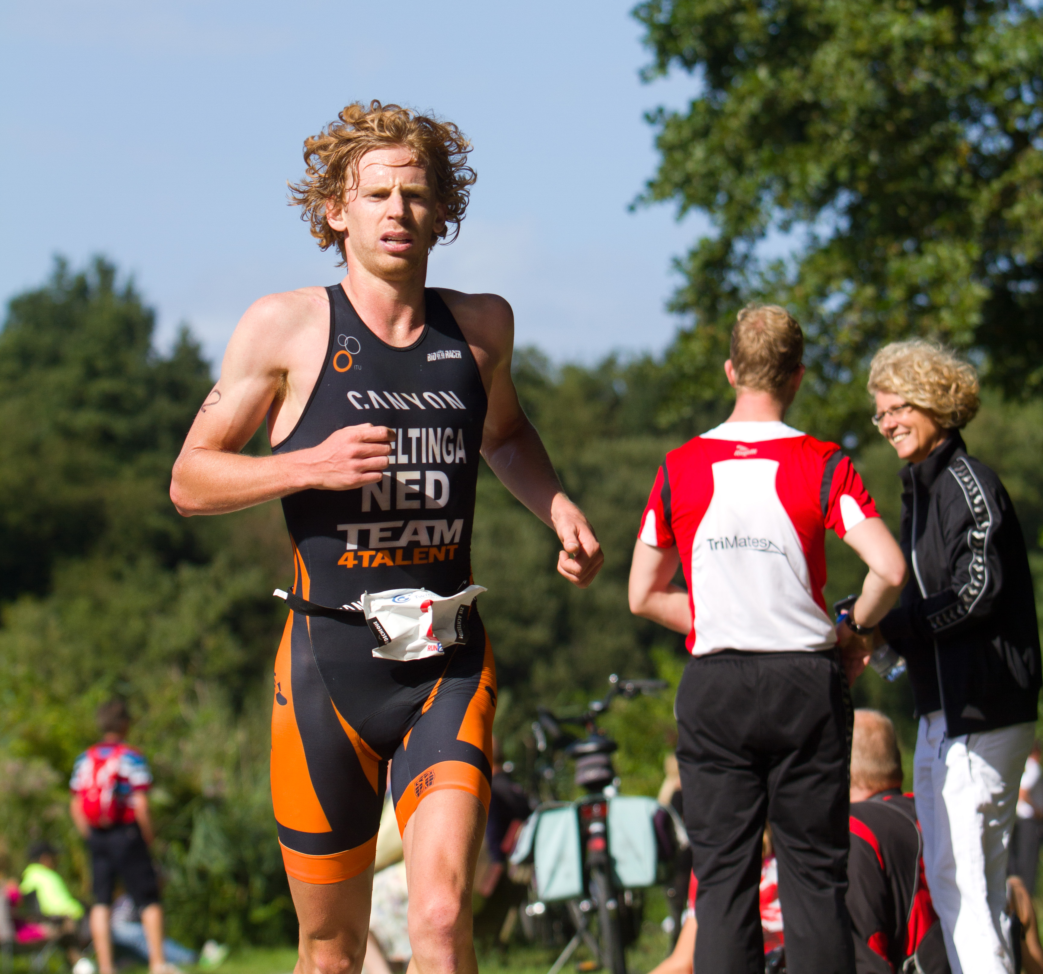 Evert Scheltinga at 31th Twinfield Triathlon Veenendaal 2013